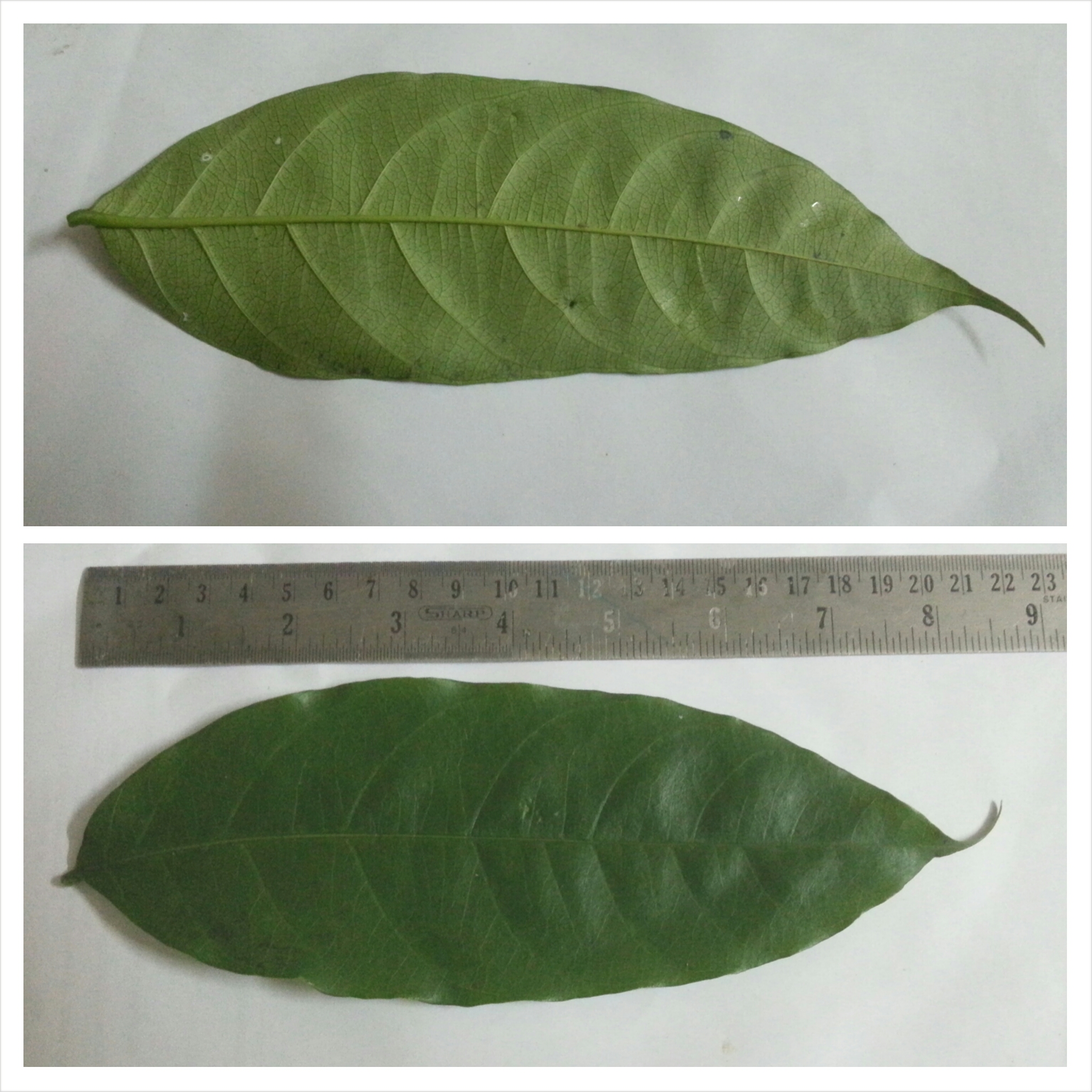 Wrightia Tinctoria leaf with scale